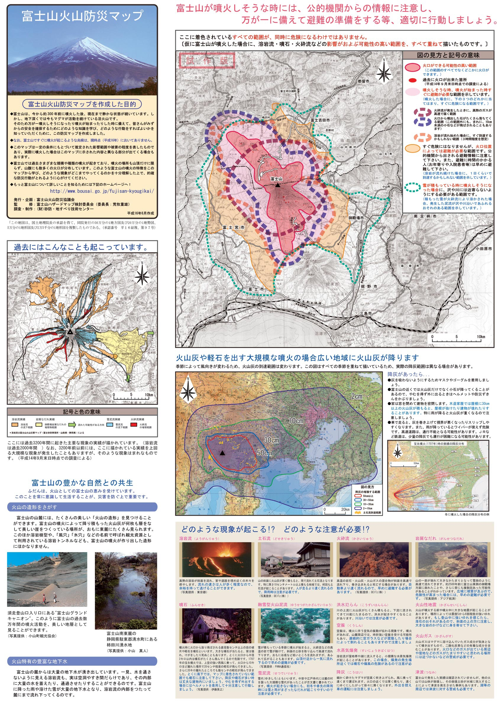 富士山火山防災マップ (The volcanic hazard map of Mt.Fuji)